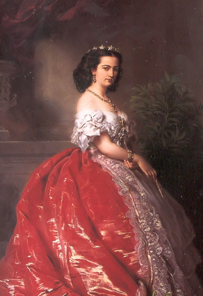 Princess Mathilde Bonaparte (1820-1904)